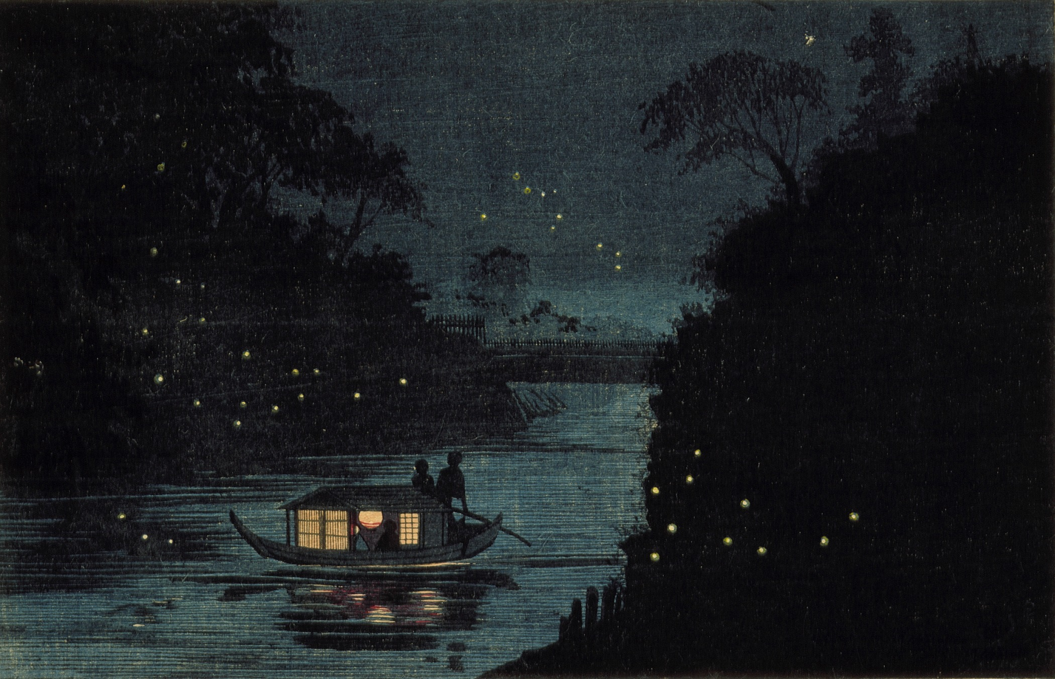 Japan, circa 1880 Alternate Title: Ochanomizu hotaru Prints; woodcuts Color woodblock print Gift of Carl Holmes (M.71.100.82) Japanese Art